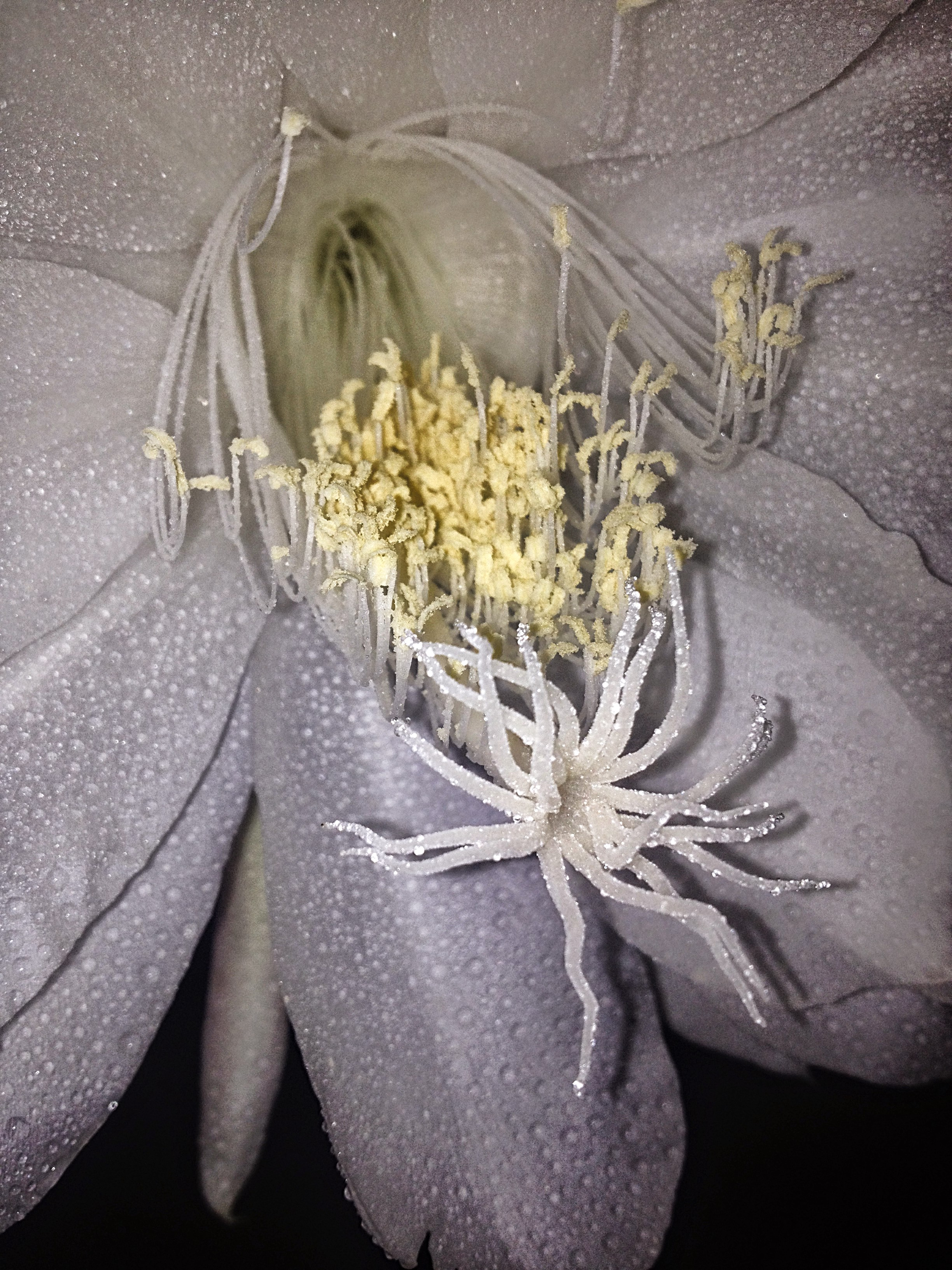 Detail of a nocturnal bloom of Epiphyllum oxypetalum. Taken in January 2015, in Brisbane, Queensland.